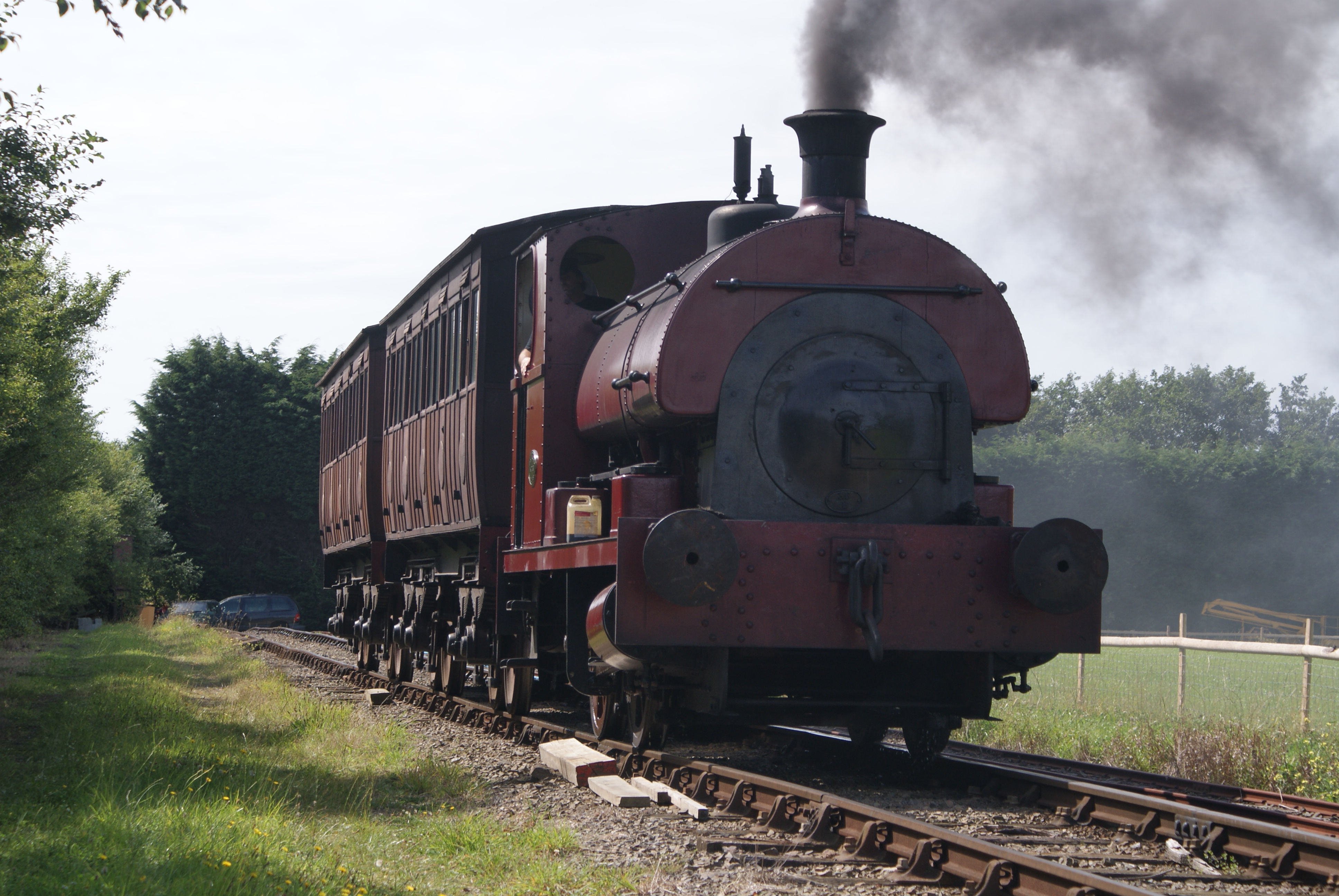 Steam train at Pallot Heritage Steam Museum